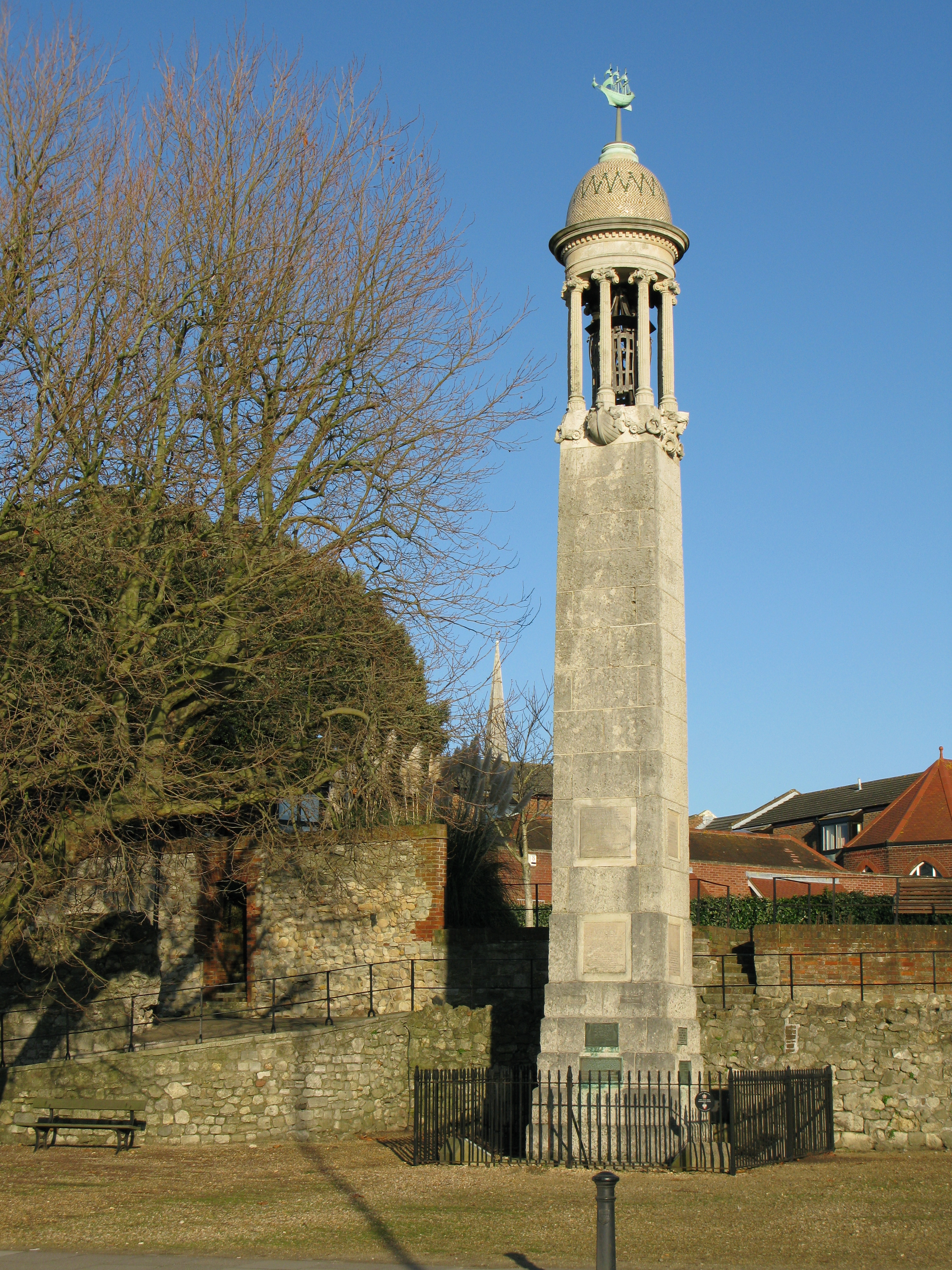 The "Pilgrim Founders", early religious settlers of North America, originally embarked from the British port of Southampton. This obelisk in Southampton commemorates the departure, as well as being a War memorial to US soldiers.